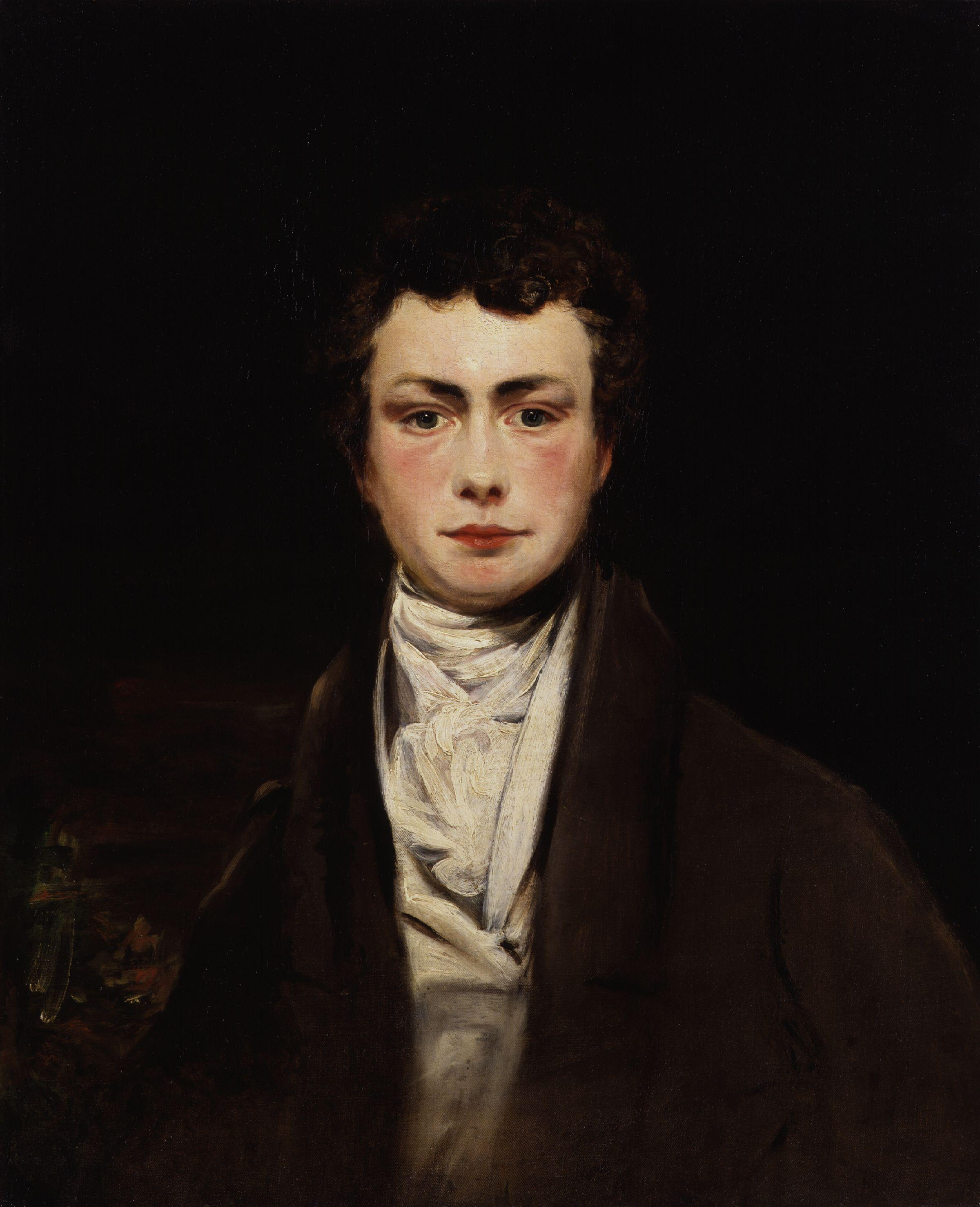 Thomas Moore, by unknown artist. All images in this batch are listed as "unknown author" by the NPG, who is diligent in researching authors, and was donated to the NPG before 1939 according to their website.